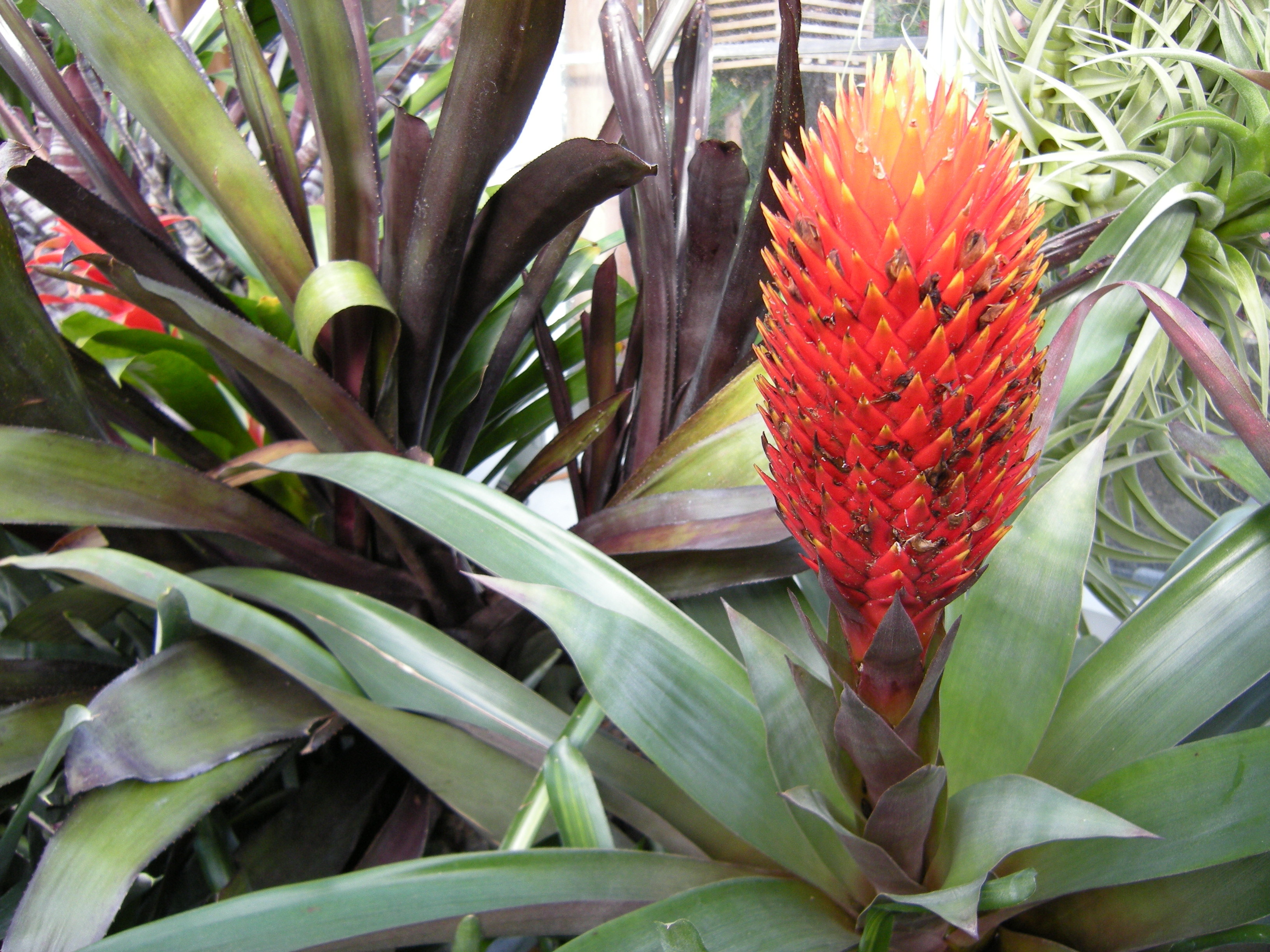 Guzmania conifera. Photographed at Volunteer Park Conservatory, Seattle, Washington.